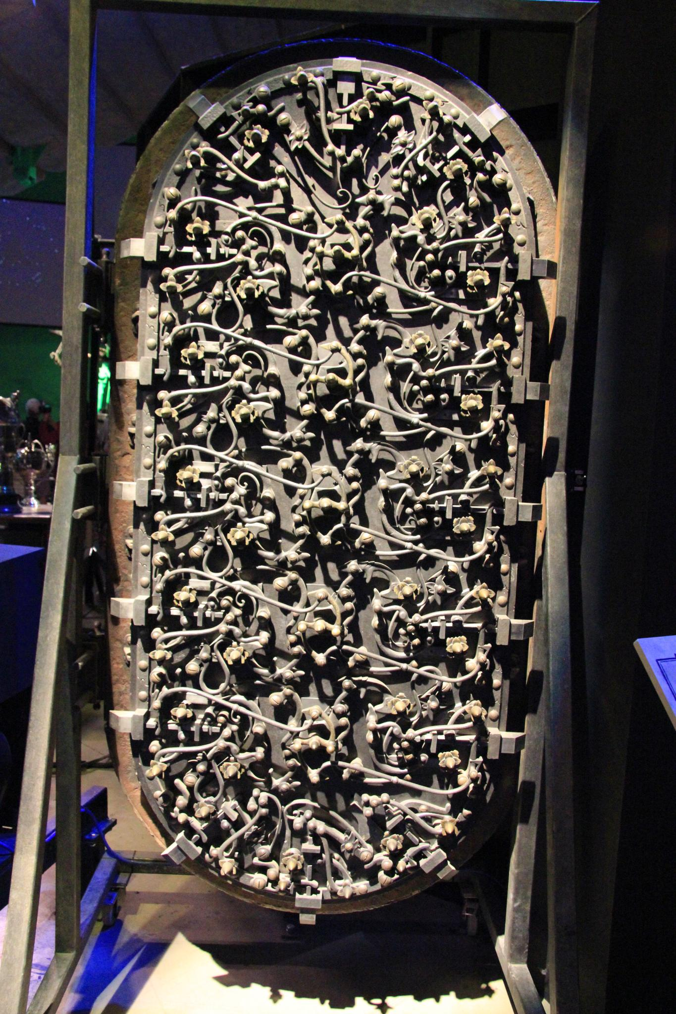 Warner Bros. Studio Tour London: The Making of Harry Potter.